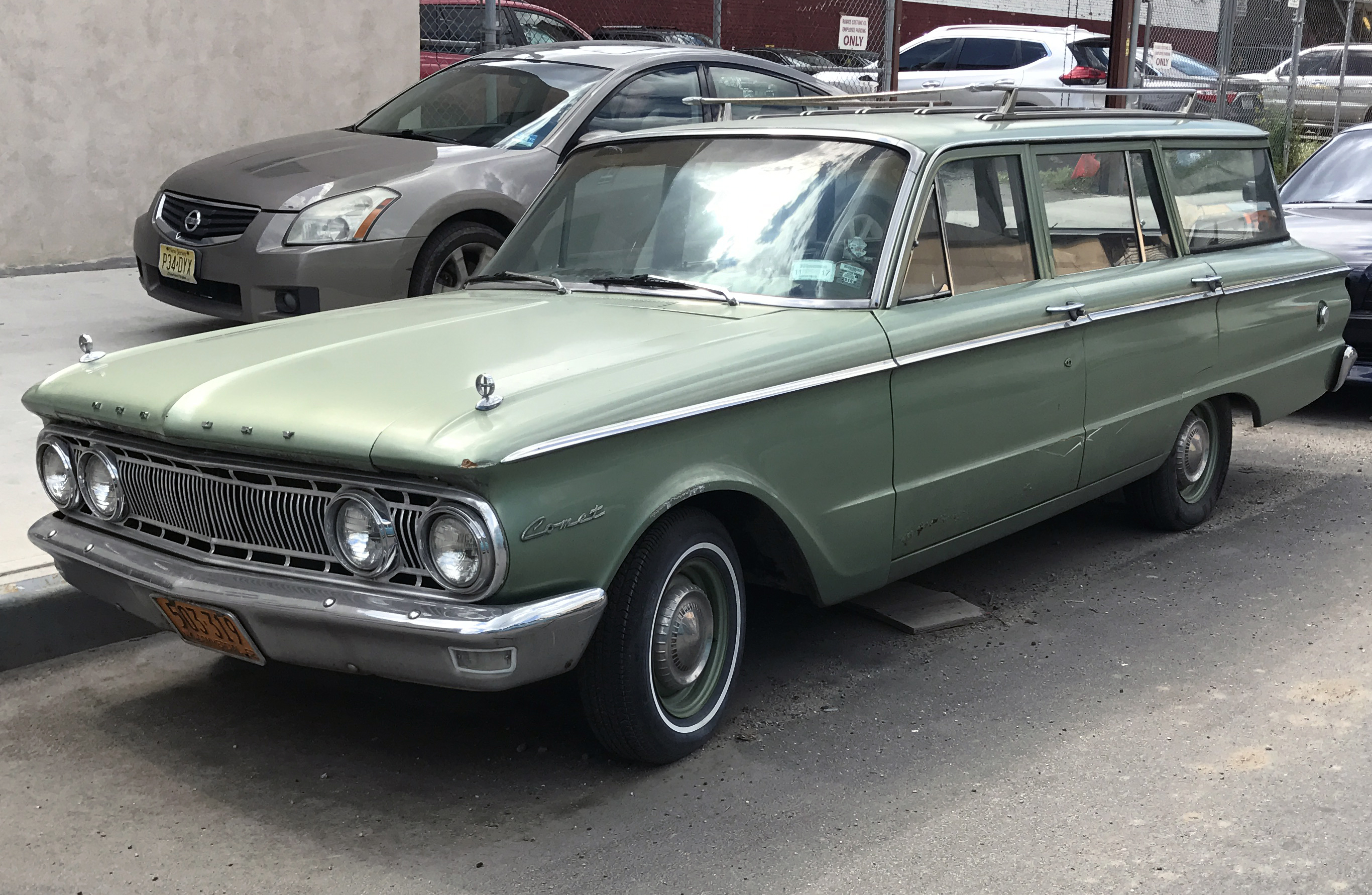 A 1962 Mercury Comet station wagon in Richmond Hills, Queens, NYC.